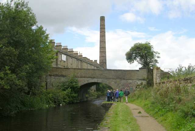 Canal towpath at Weavers' Triangle, Burnley, Lancashire, England